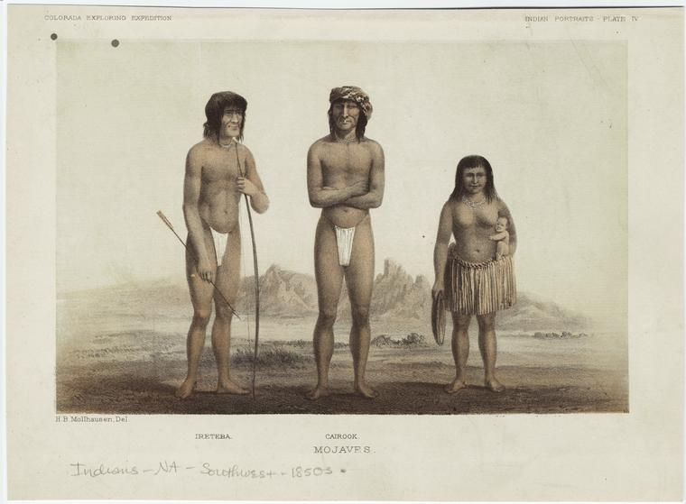 A rendering of Chief Cairook, Irataba, and a Mohave woman by German artist Balduin Möllhausen.[1]